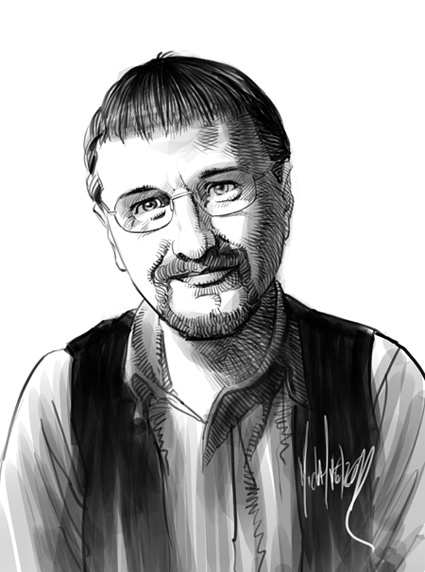 Portrait Illustration of comics artist and illustrator P. Craig Russell by colleague Michael Netzer for his Portraits of the Creators Sketchbook.